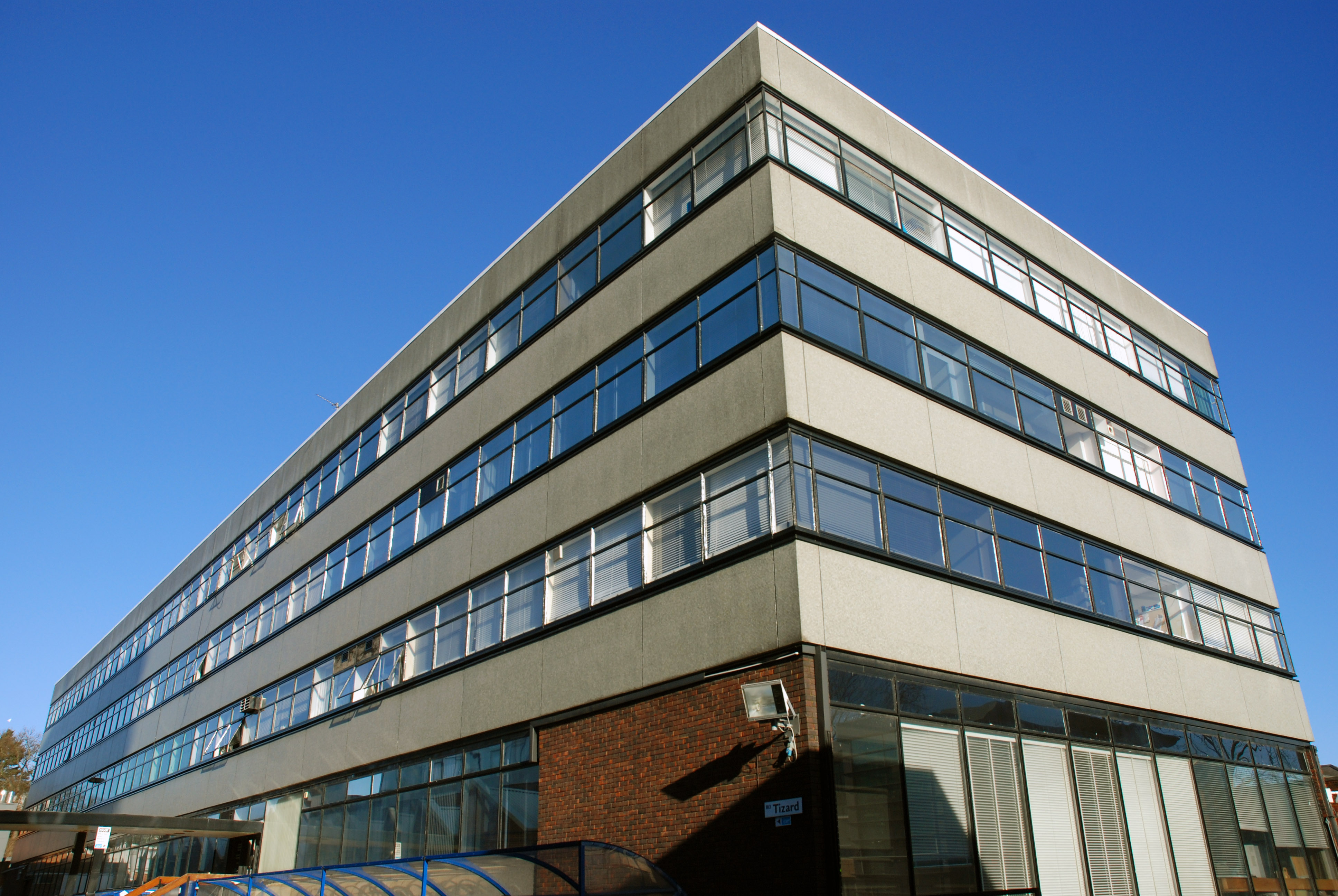 The Tizard Building of the University of Southampton. Home of the ISVR.